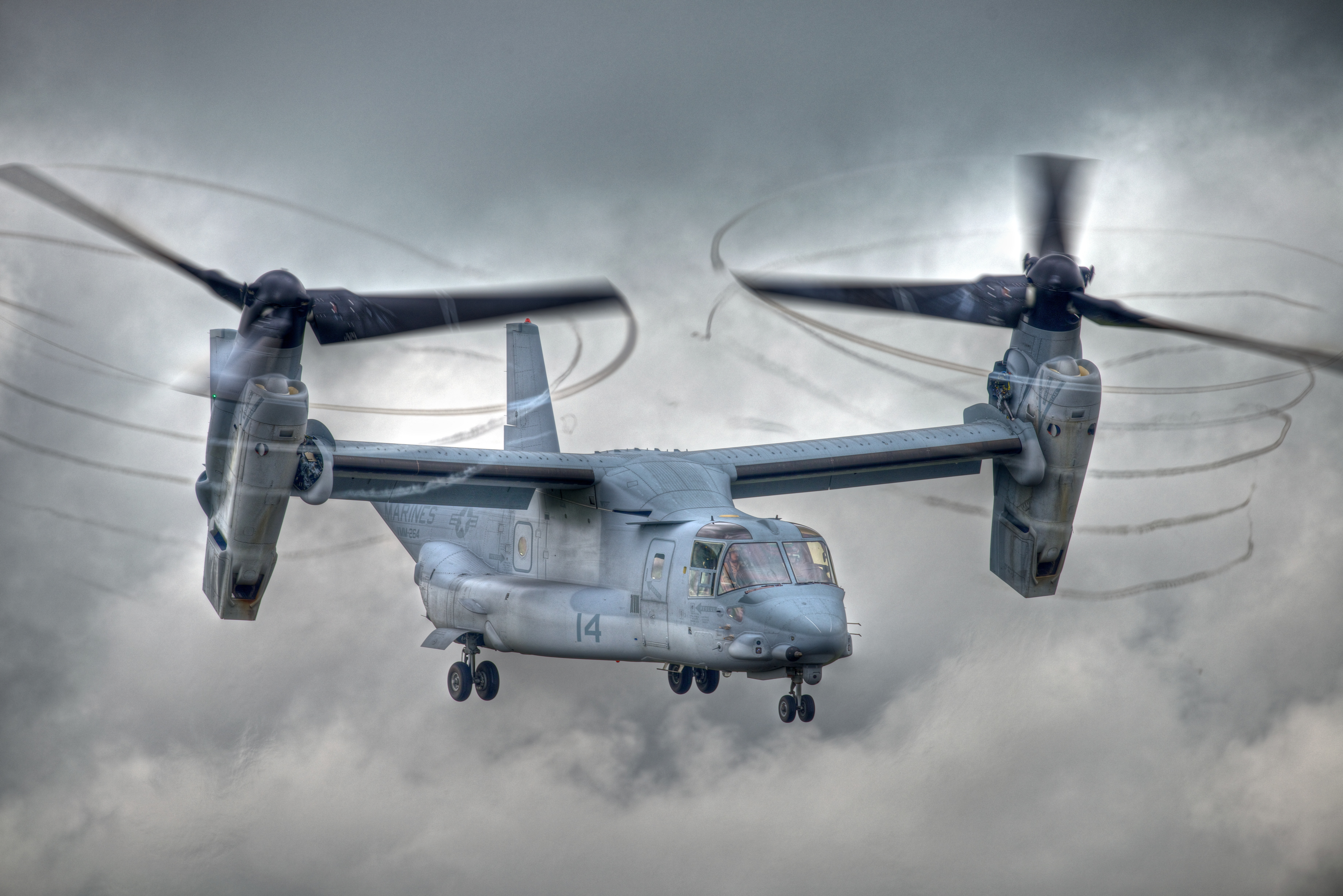 Bell-Boeing V-22 Osprey at the 2012 Royal International Air Tattoo. Water condensation indicates tip vortices emanating from the propellers.